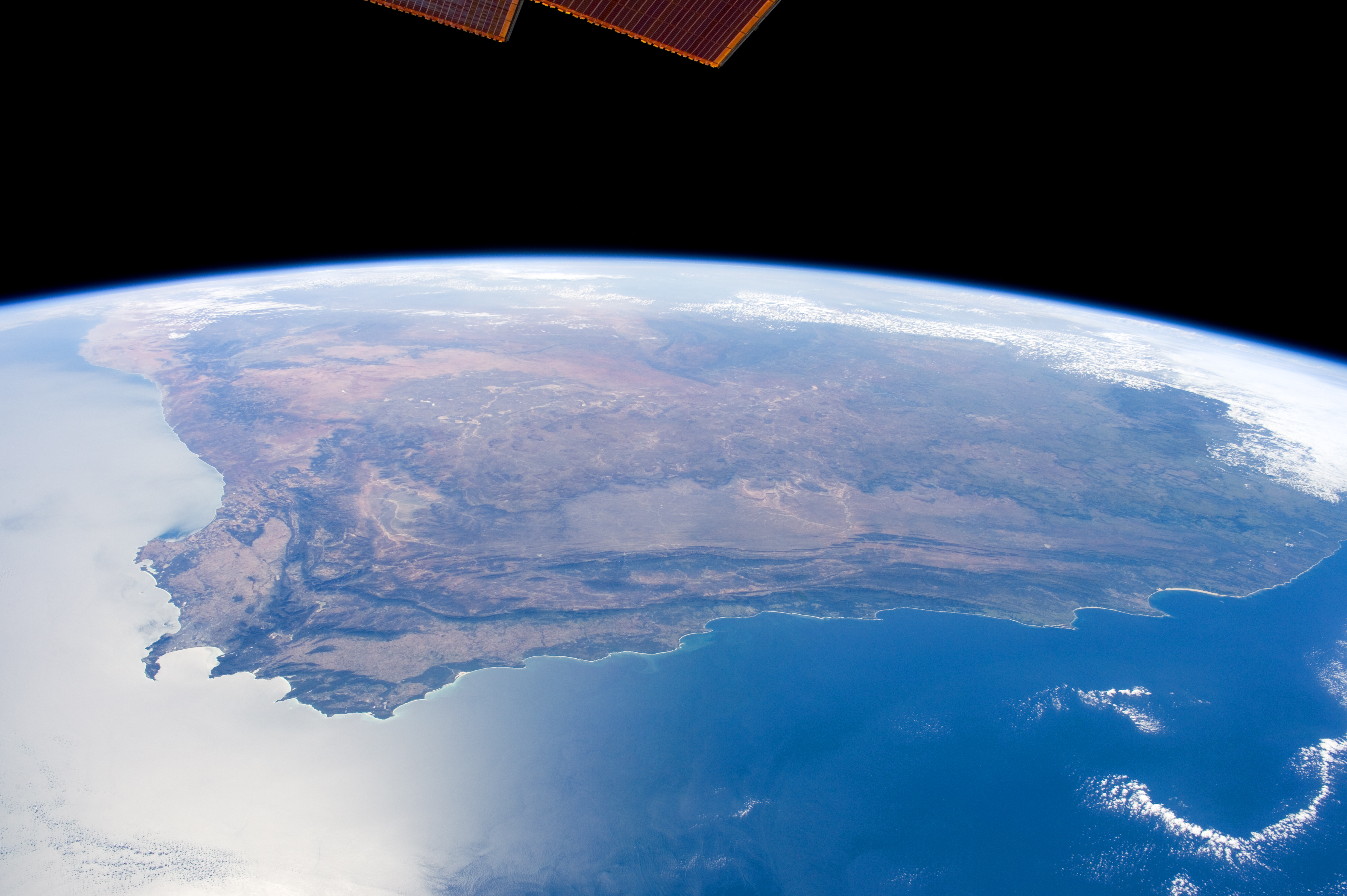 The very bottom tip of Africa is imaged here as captured by the crew of the International Space Station on April 3rd, 2016. South Africa's capitol Cape Town is located at the bottom left of this beautiful Earth picture captured on a sunny day.